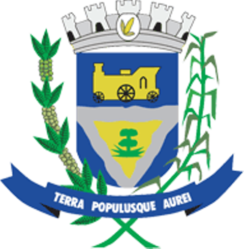 Coat of arms of Ourinhos, São Paulo, Brazil.